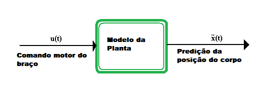 Internal model is a postulated neural process that simulates the response of the motor system in order to estimate the outcome of a motor command